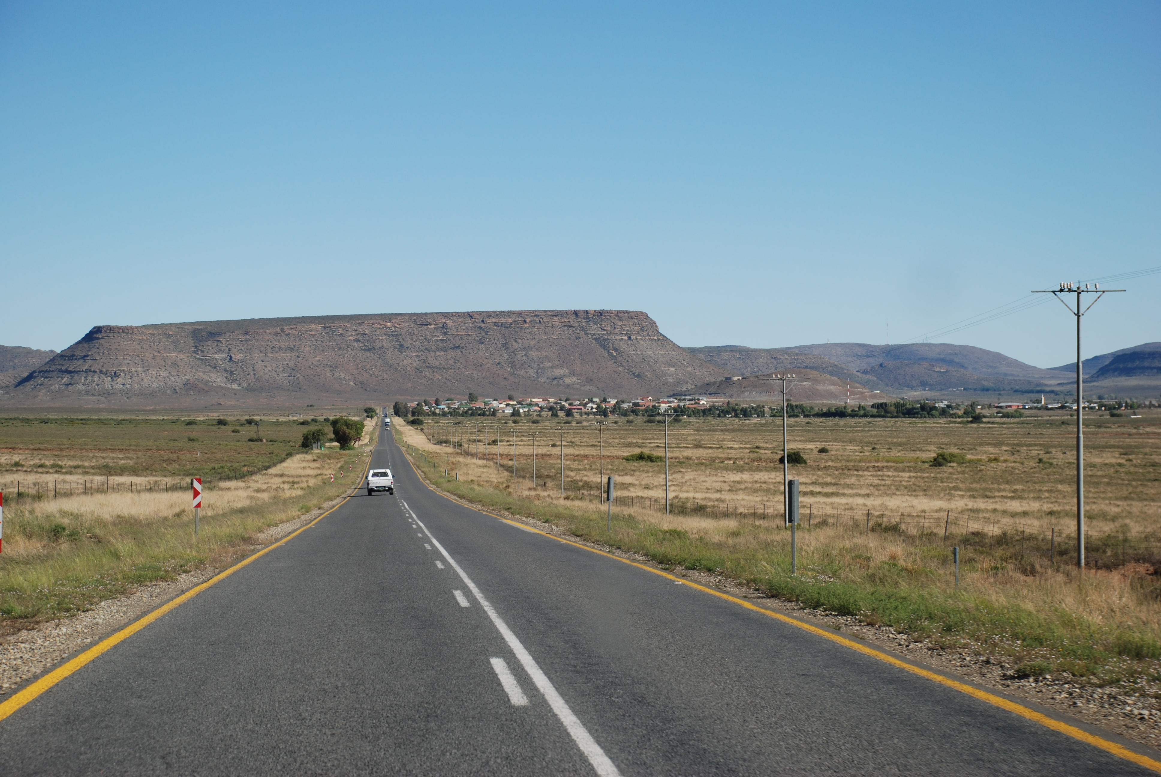 View of Noupoort from the south